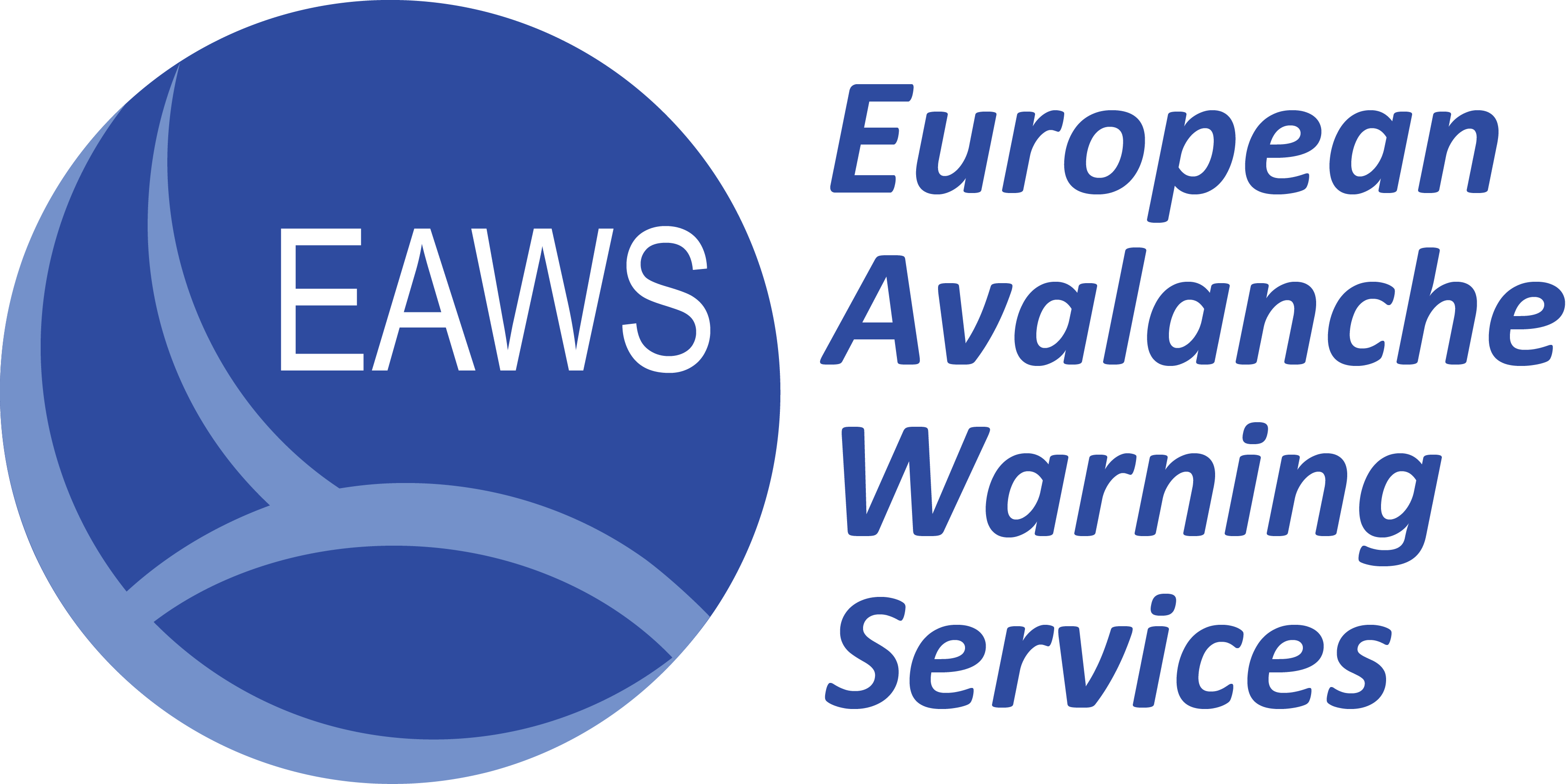 Emblem of the European Avalanche Warning Services (EAWS)